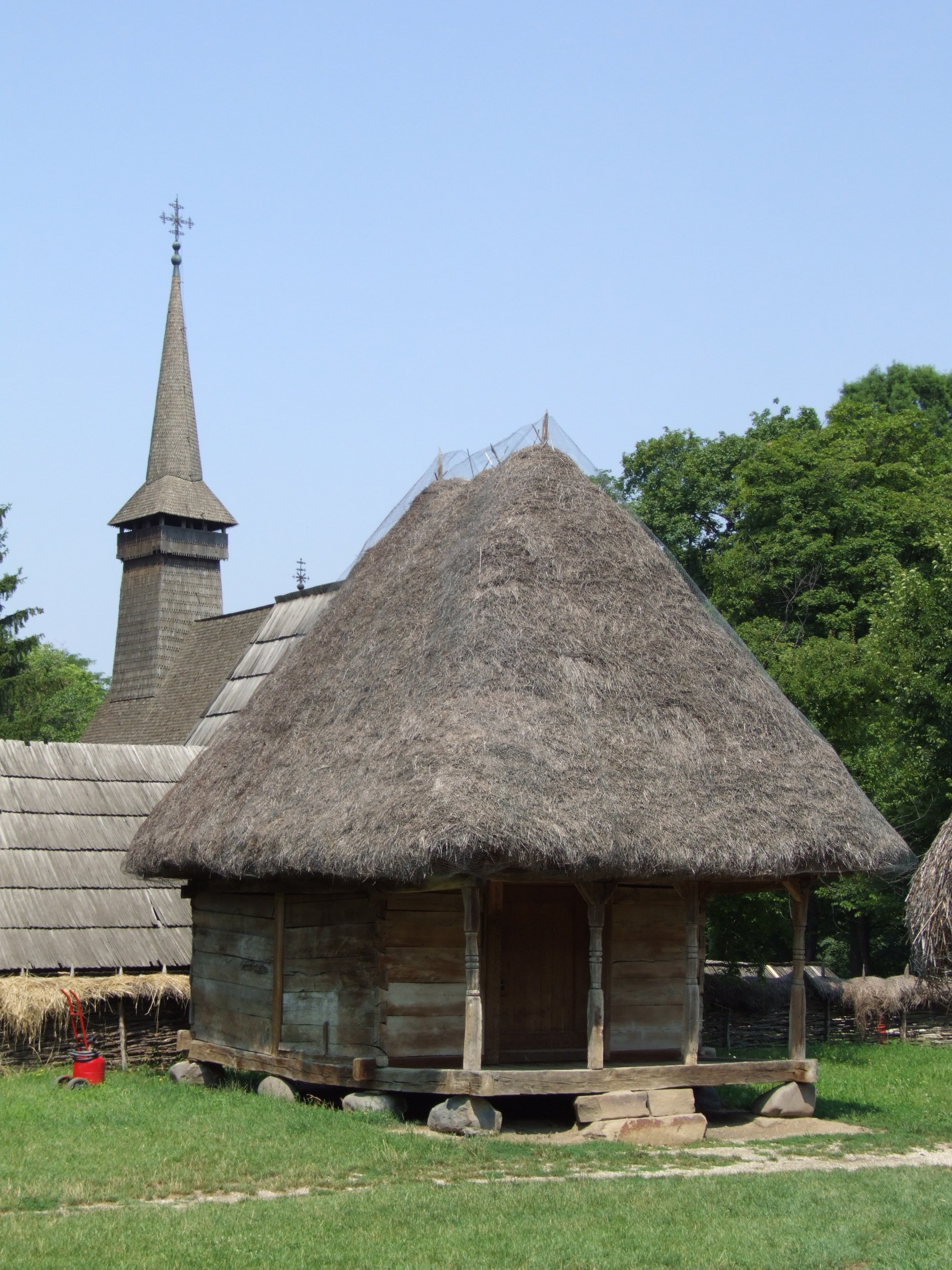 Bucharest - Village Museum. House from Şurdeşti (Dióshalom)